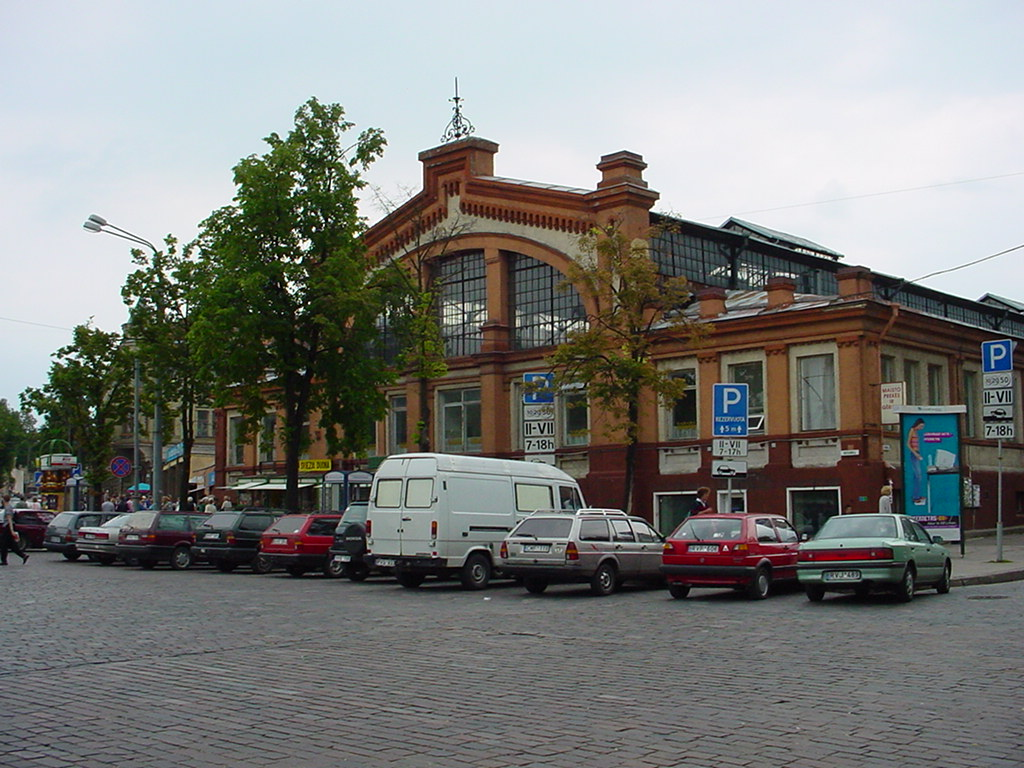 Vilnius' Hale in 2002